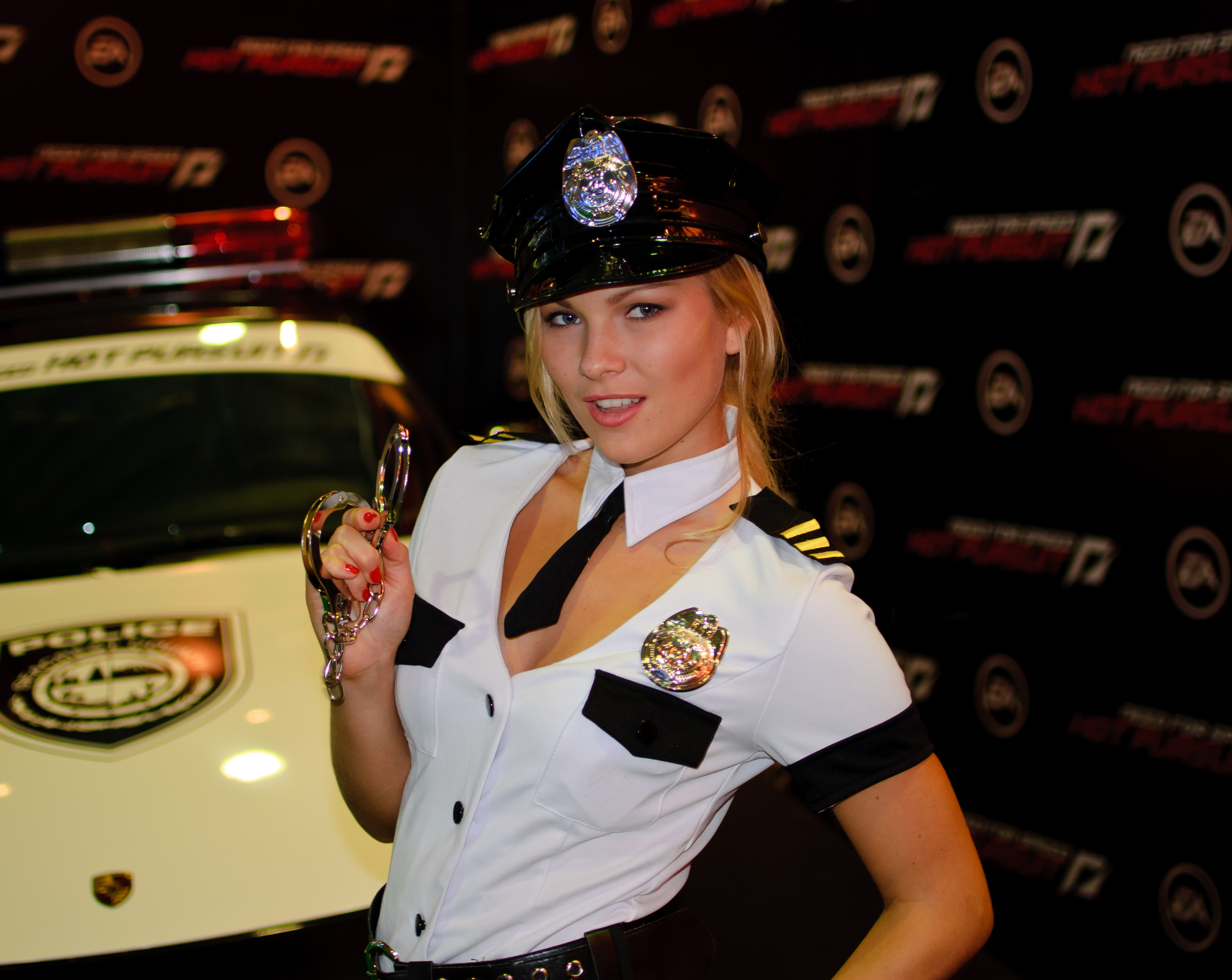 Girls of Igromir 2010